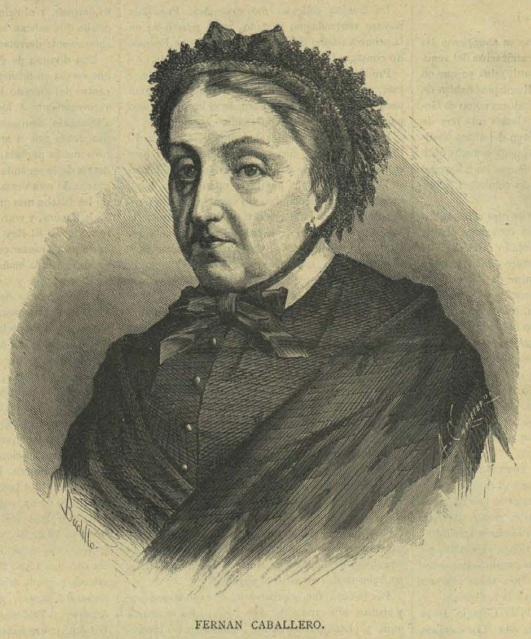 Cecilia Böhl de Faber, "Fernán Caballero".